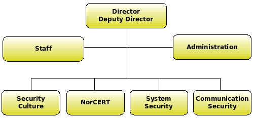 Based on